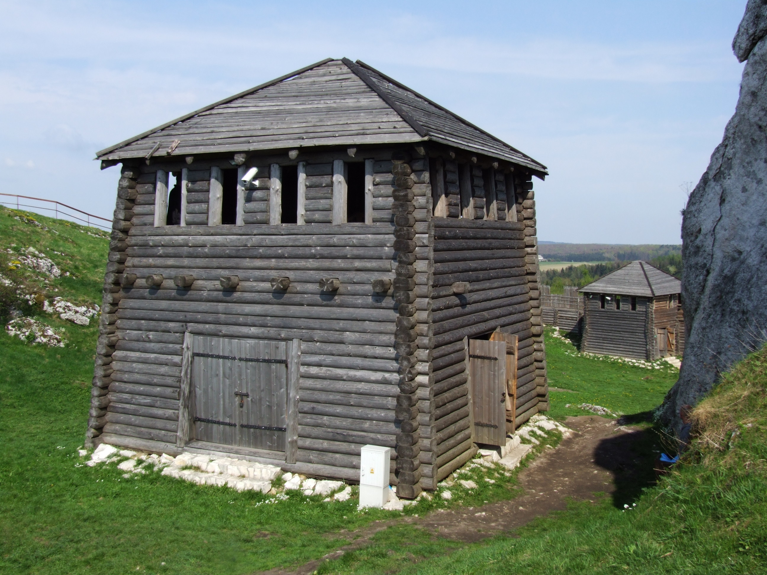 Reconstruction of a gord